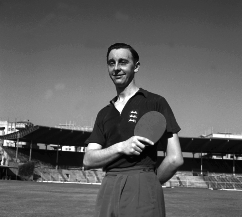 Studio/Feb.52,A39aJohnny Leach (England’s No. 1) who took part in the International Table Tennis Championship at Bombay in February, 1952.